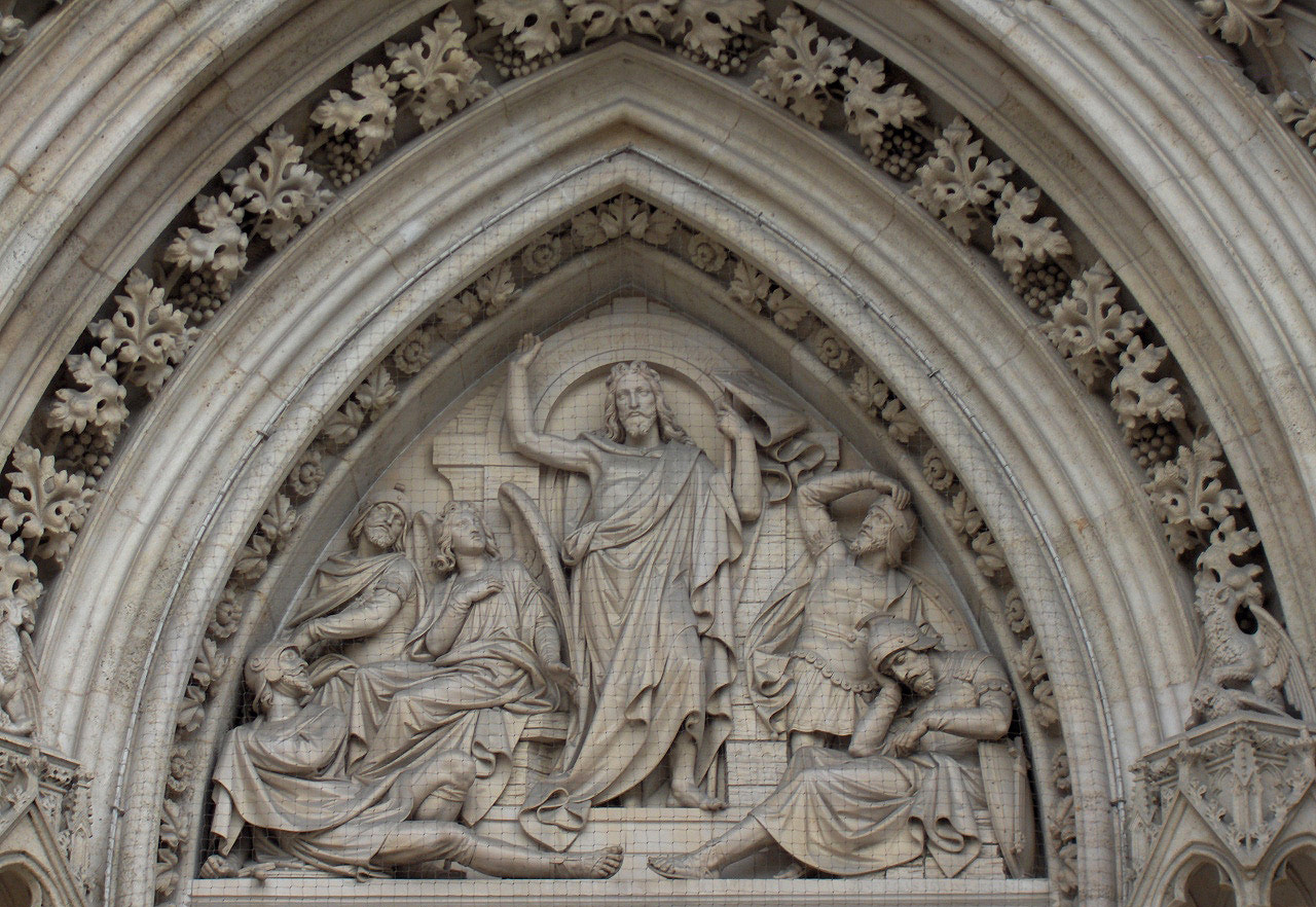 Gable on the right portal of the Votivkirche, Vienna, Austria